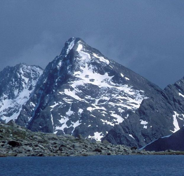 Weiße Spitze (2962m) as seen from northwest from Oberseitsee lake (2576m)